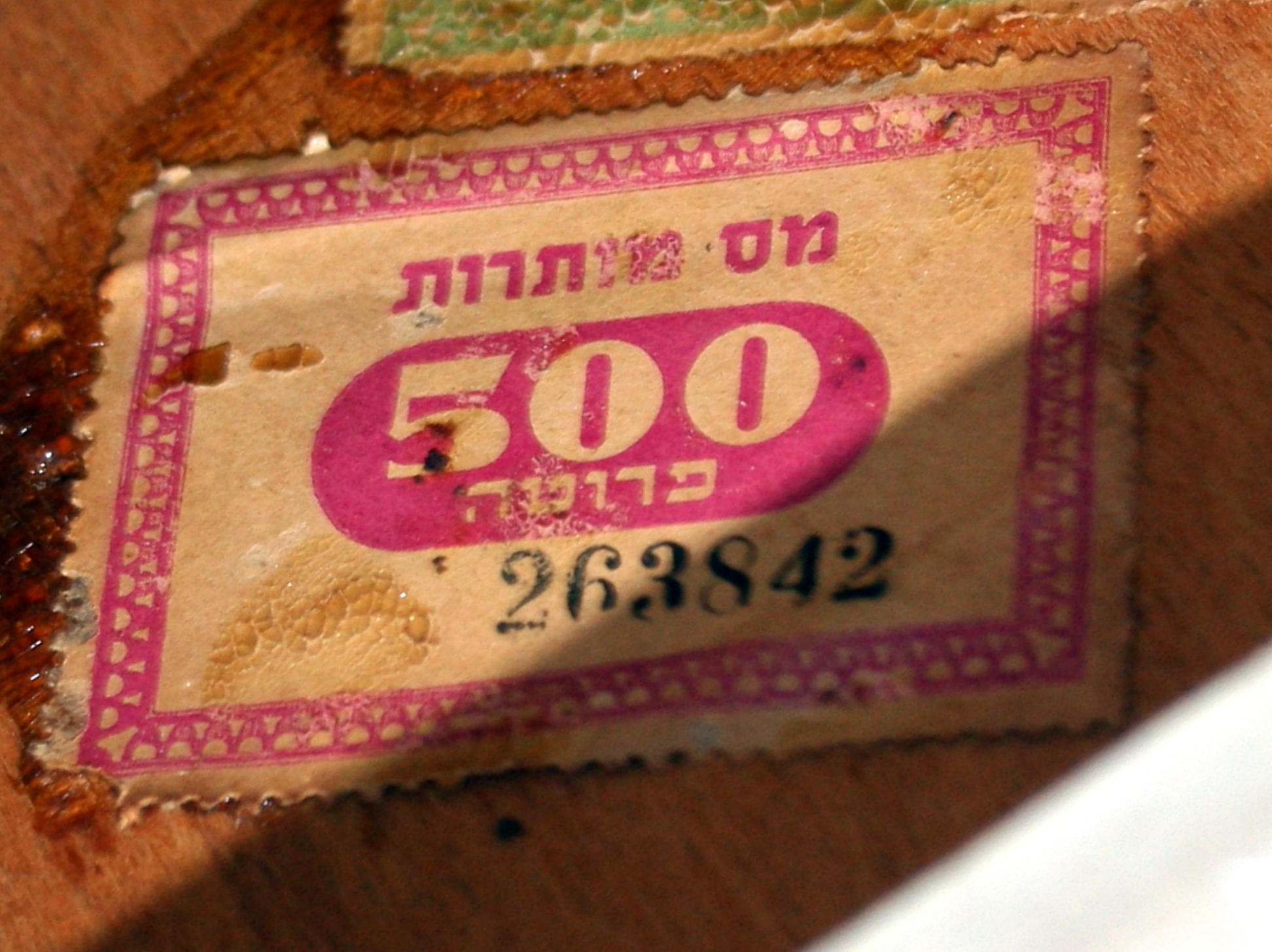 Israeli Luxury Tax stamp (1949-1952)